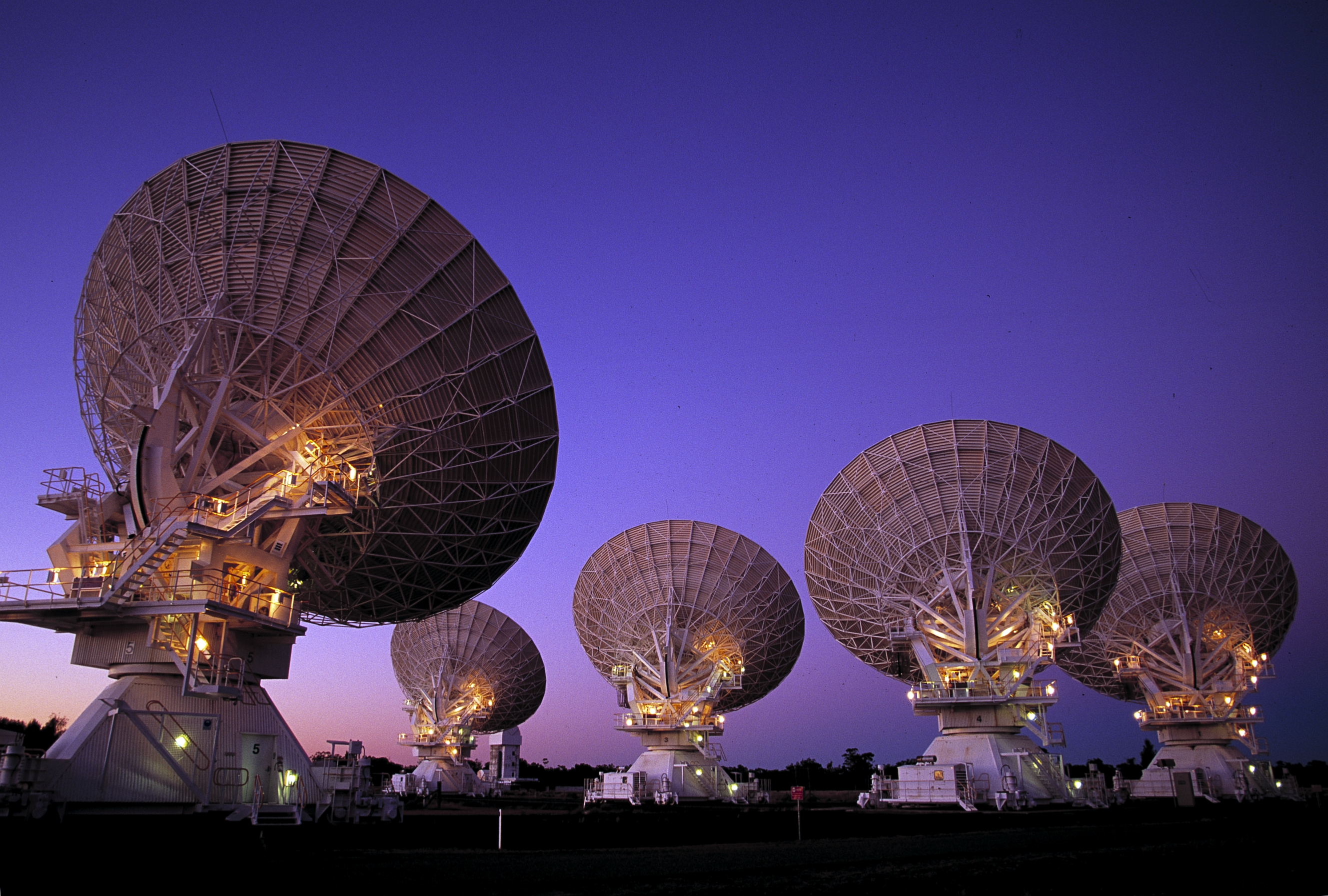 Five of the six 22m antennas of the Australia Telescope Compact Array, near Narrabri, NSW.